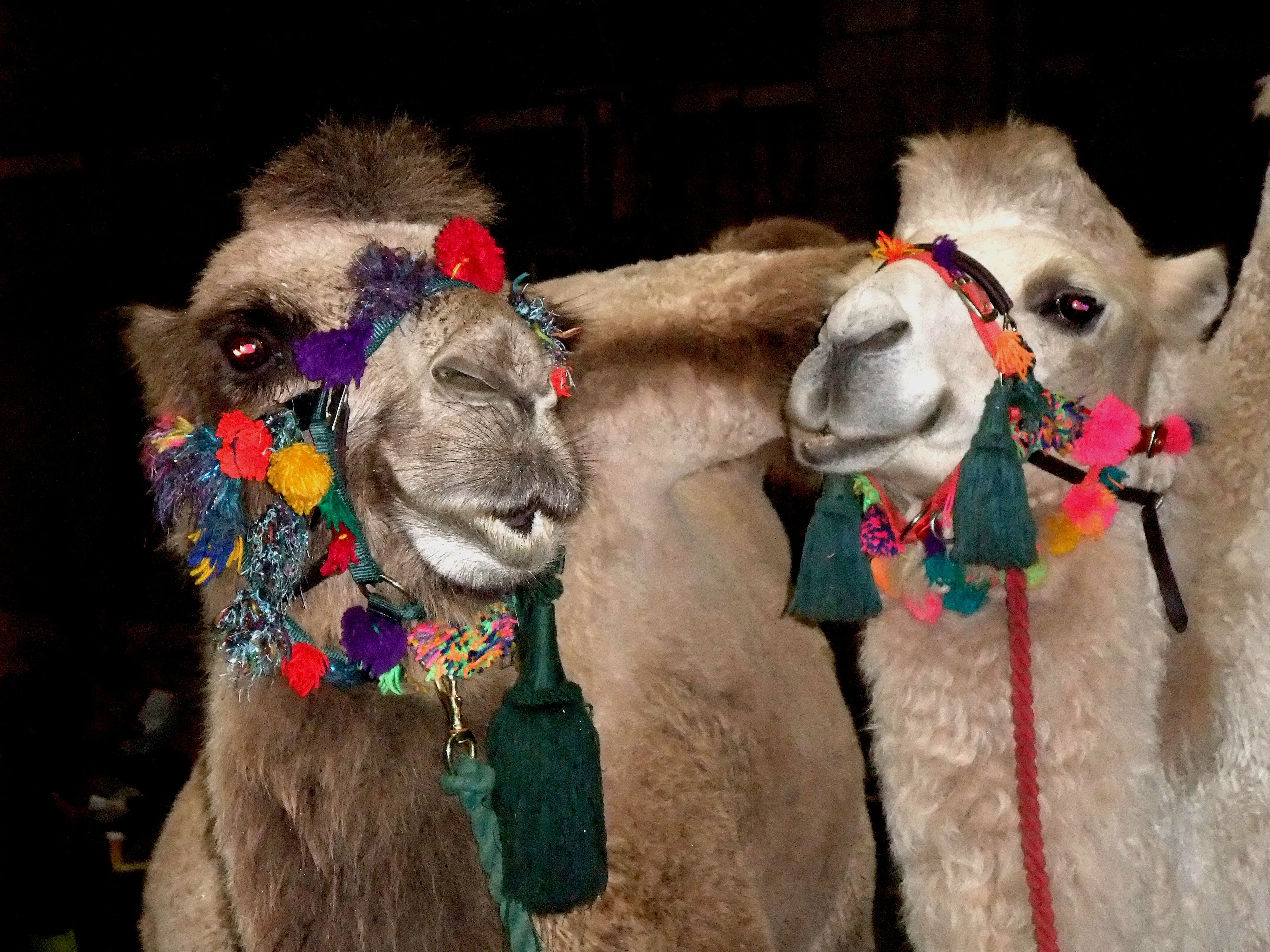 Two bactrian camels in the foyer during intermission in the dress rehearsal for Stockhausen's opera Mittwoch aus Licht, Birmingham Opera, Argyle Works, Digbeth, Birmingham, 21 August 2012. Photograph by Jerome Kohl.